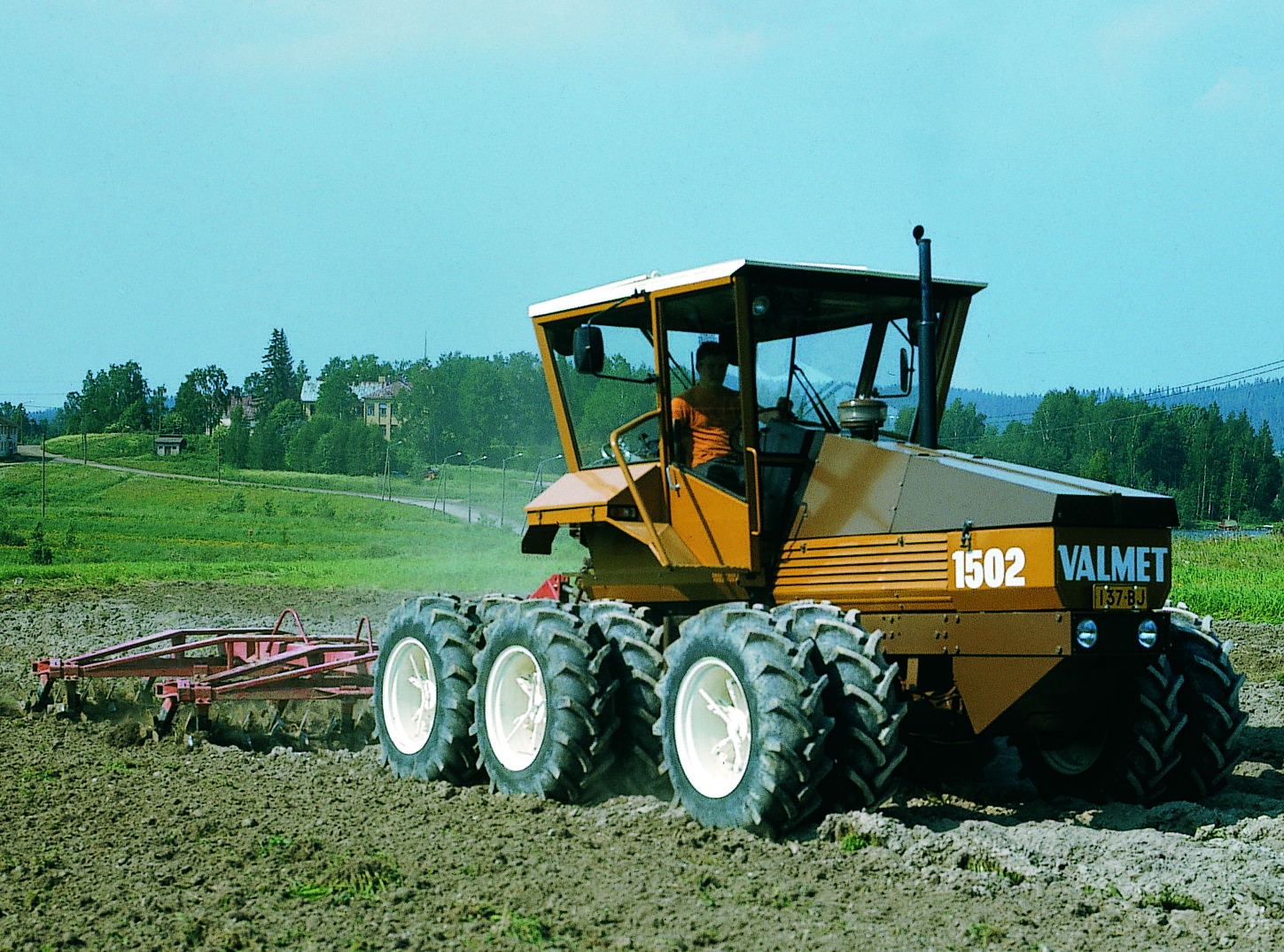 Valmet 1502 was exceptional tractor. It had six wheels and a bogey axle at the rear of the tractor.